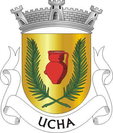 Crest of Ucha, a parish in the municipality of Barcelos (Portugal)